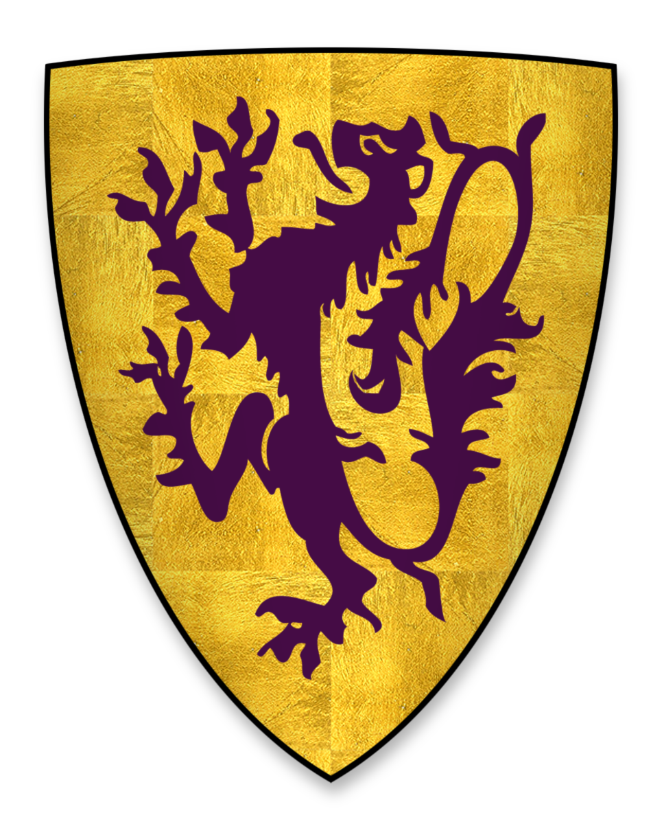 Coat of arms of John de Lacy, Lord of Pontefract Castle